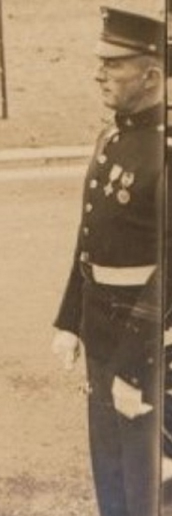 Ernest A. Jansen wearing his Tiffany Cross Medal of Honor at the dedication of the Tomb of the Unknown Soldier of WWI.